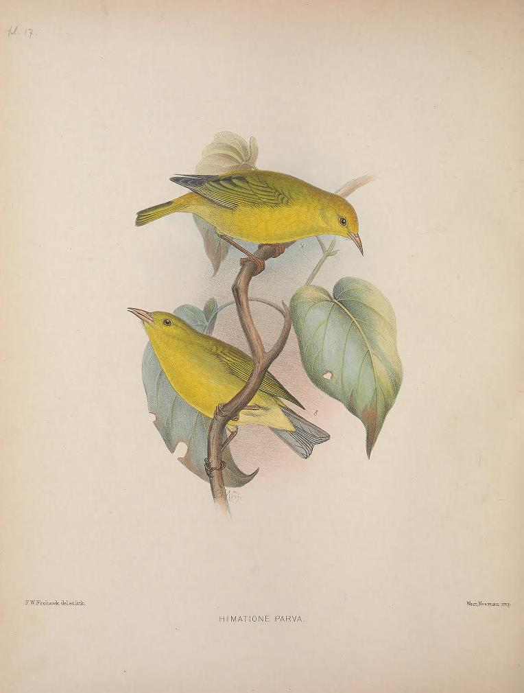 Himatione parva from The Birds of the Sandwich Islands